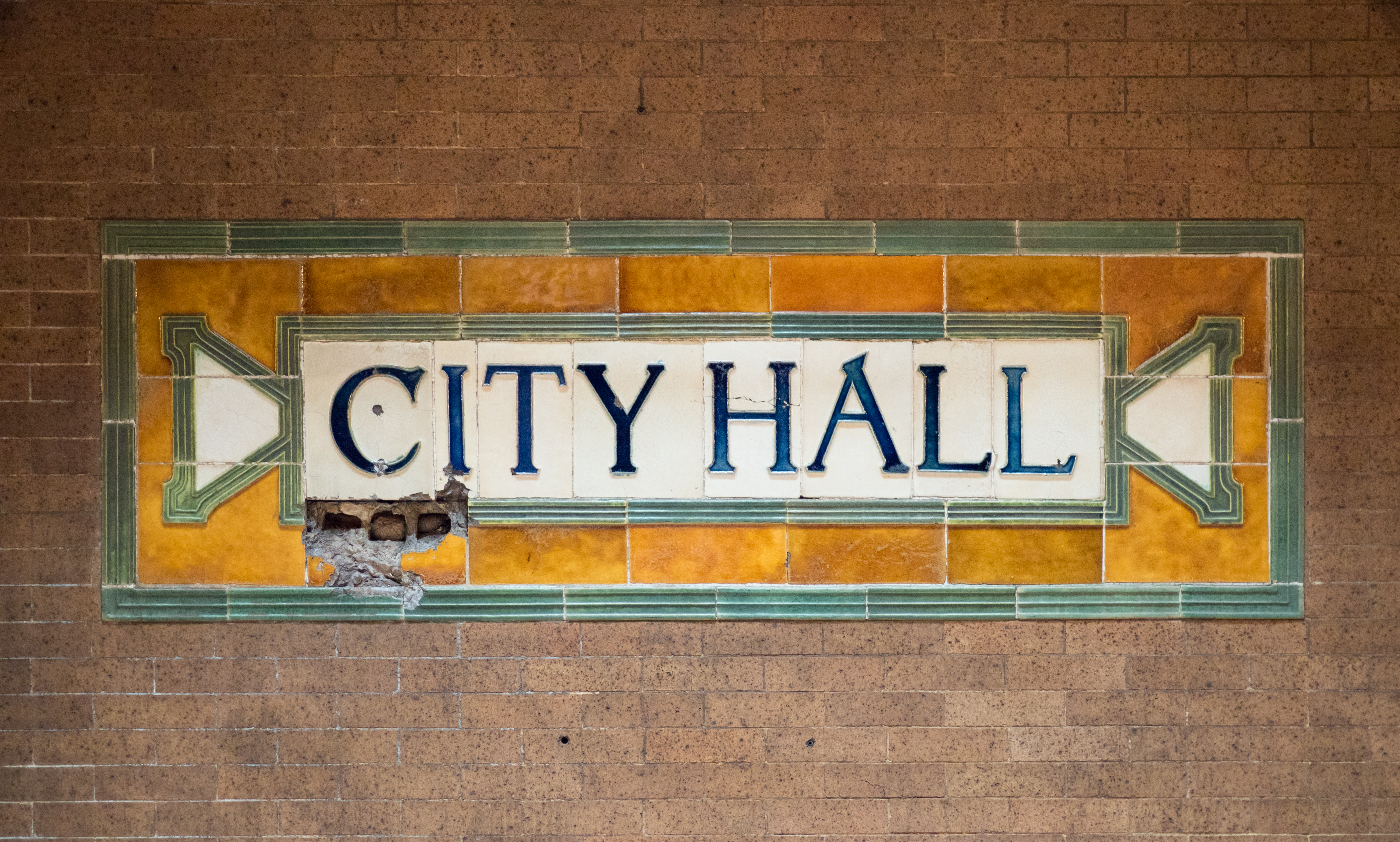 The defunct City Hall subway station in New York City, closed since 1945.